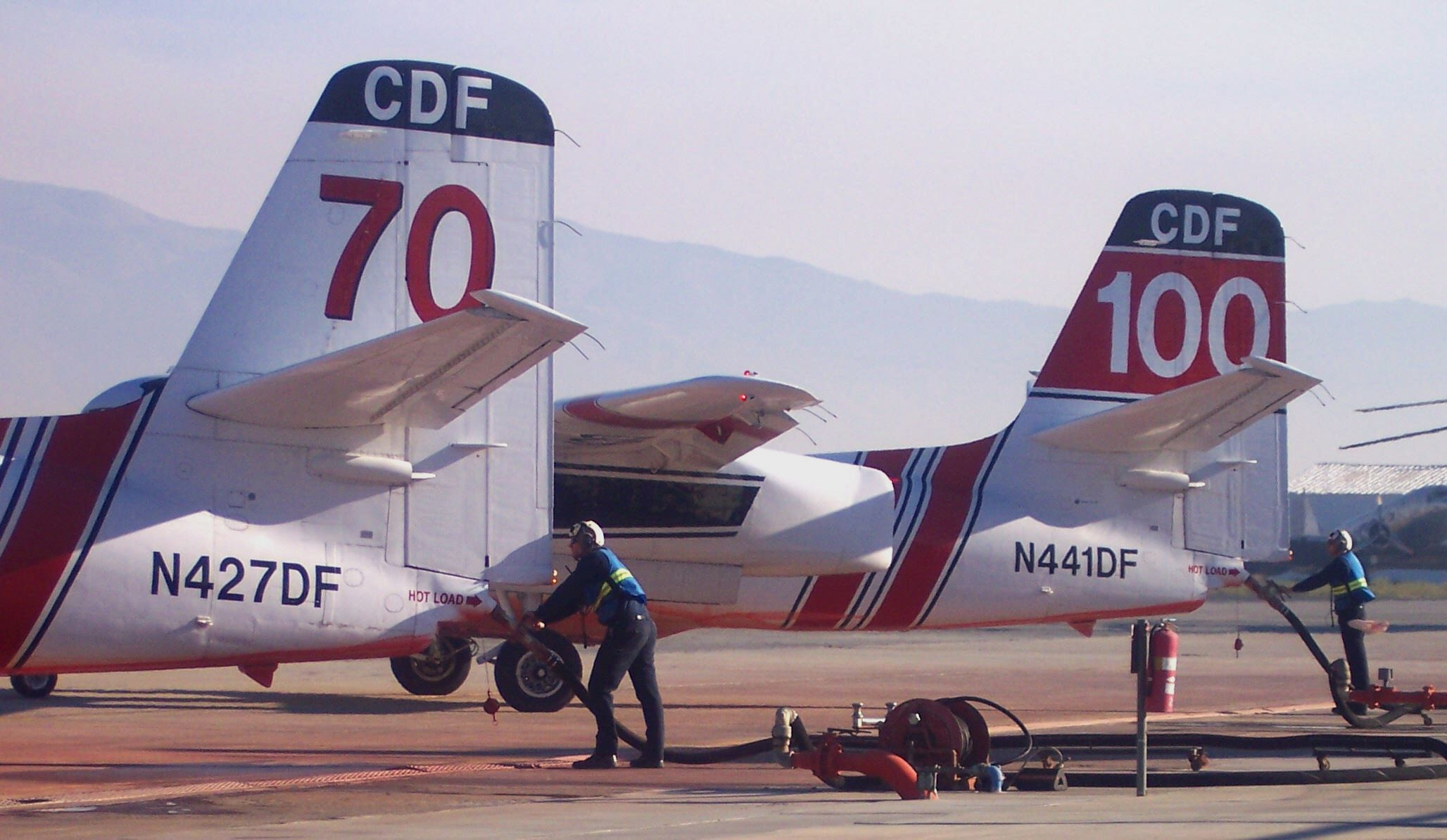 Tanker 70 and 100 reloading at Hemet-Ryan Airport during the Esperanza Fire.